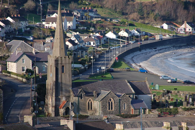 St Patrick's, Glenarm St Patrick’s, Glenarm, in the parish of Tickmacrevan, was built in 1769 on the site of a former friary. It was extended in 1823, 1878 and 1892. The adjacent public car park does not enhance an otherwise attractive site. Photo from the Dickeystown Road (in the same square).